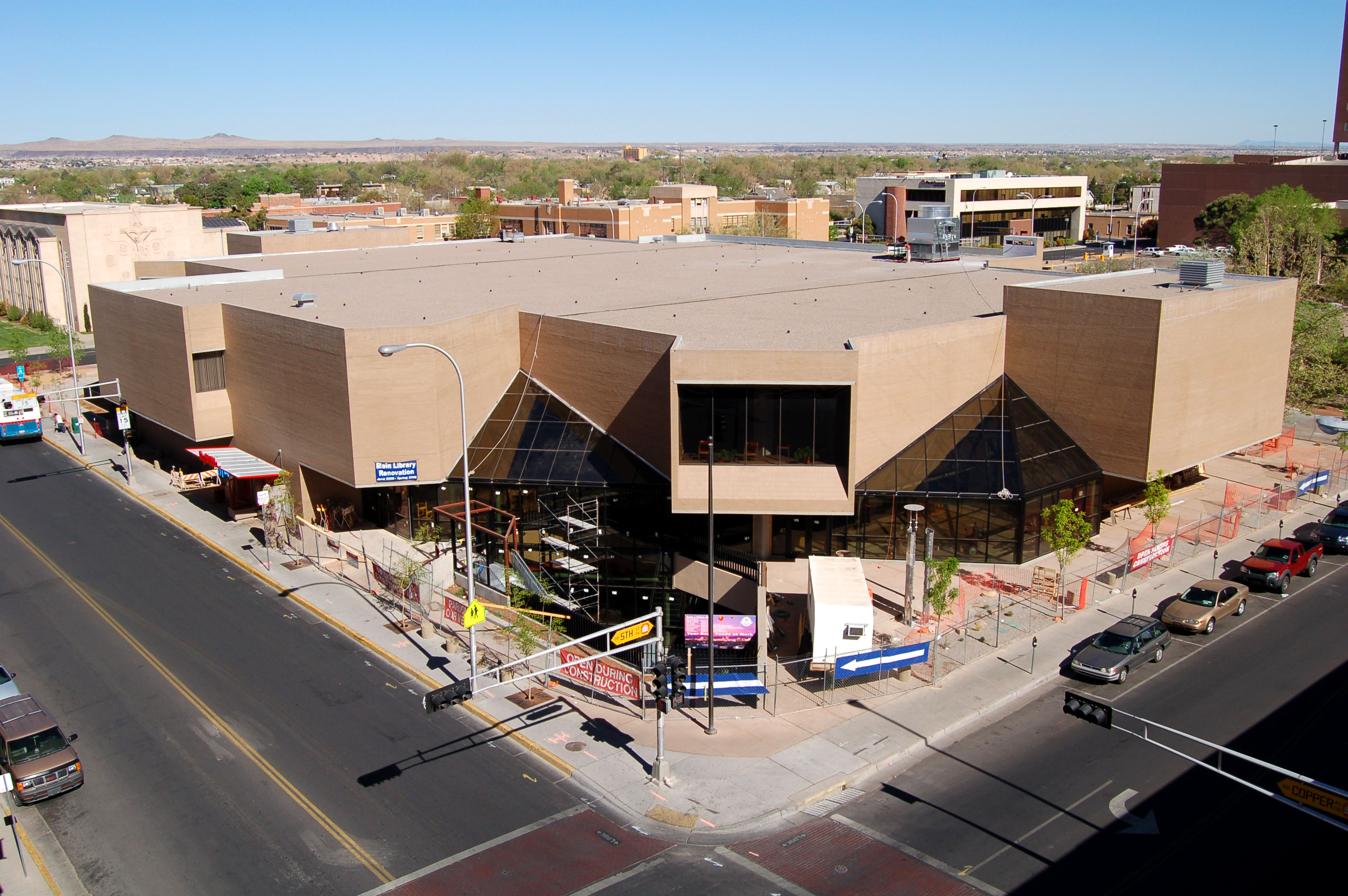 The Main Library in Albuquerque, New Mexico, USA